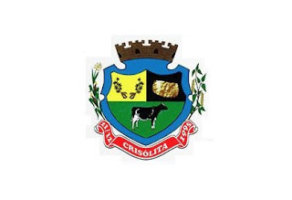 Flags of the city of Crisólita, Minas Gerais, Brazil.